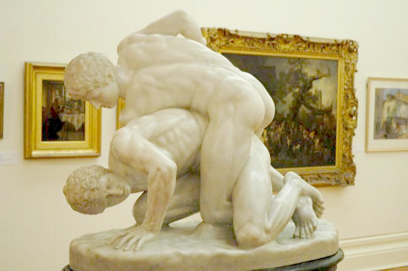 Estátua da Luta